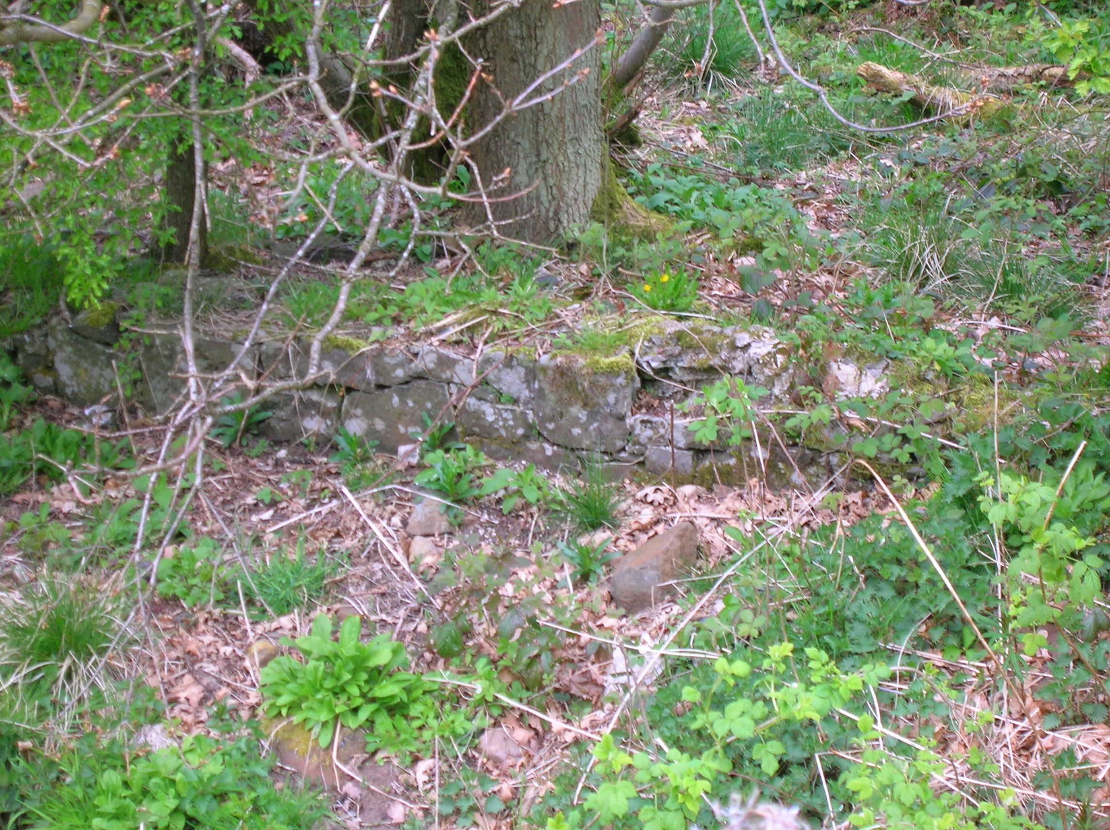 Drukken Steps wall foundatins, Eglinton, North Ayrshire, Scotland